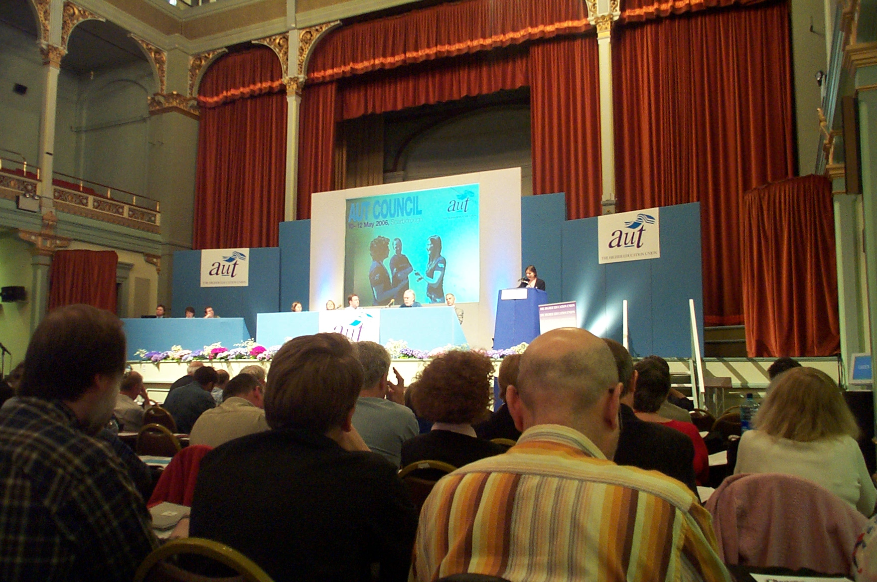 General secretary Sally Hunt addressing the last annual Council of the Association of University Teachers before its merger with National Association of Teachers in Further and Higher Education to form the University and College Union.